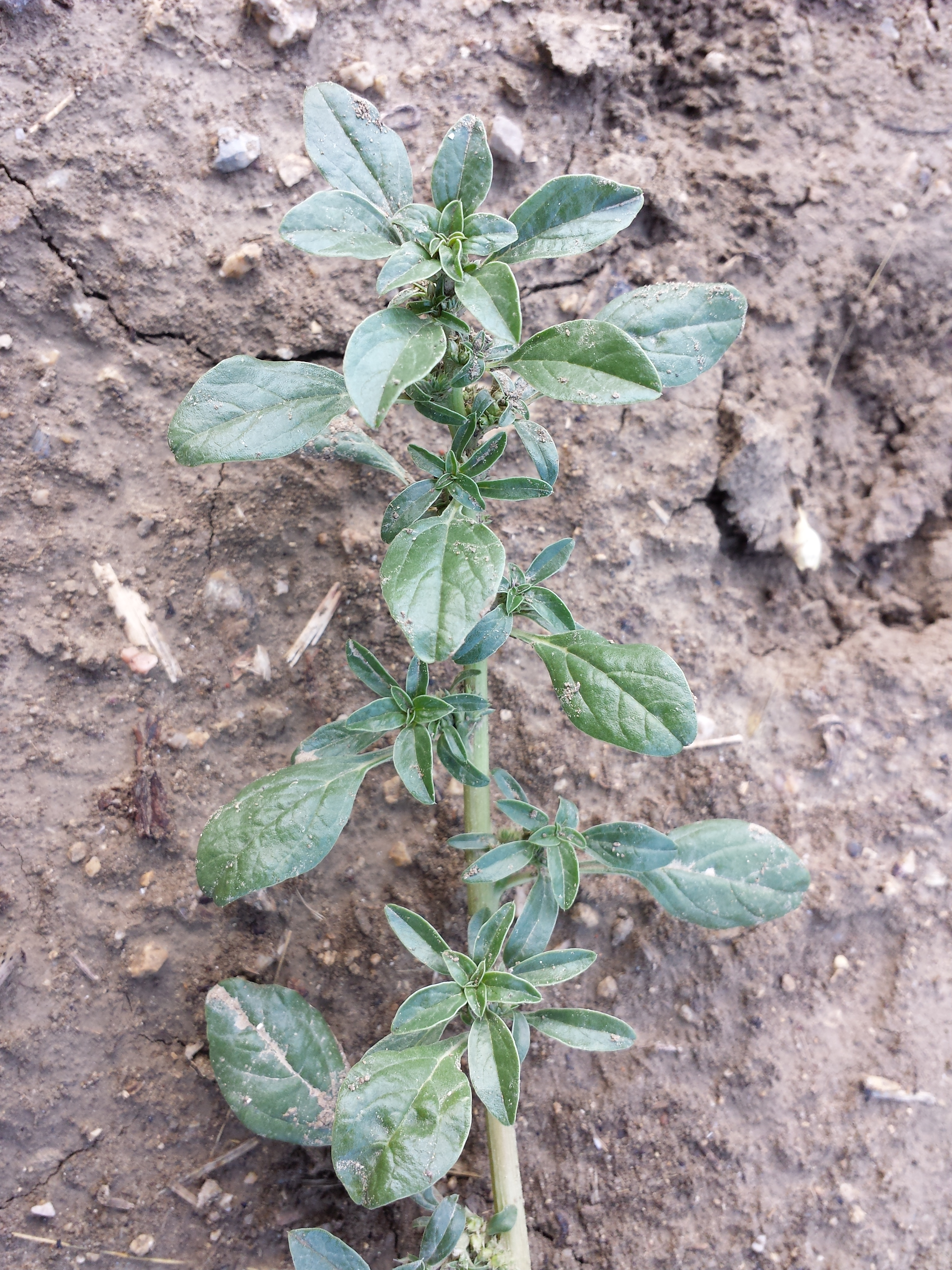 Inflorescence Taxonym: Amaranthus blitoides ss Fischer et al. EfÖLS 2008 ISBN 978-3-85474-187-9 Location: near Steinberg near Niederhollabrunn, district Korneuburg, Lower Austria - ca. 350 m a.s.l. Habitat: field